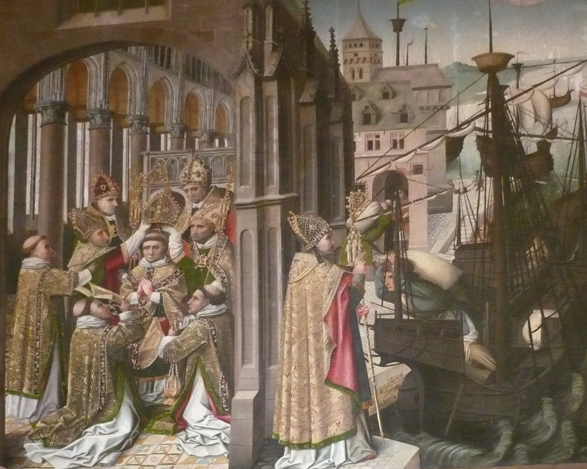 Flügelbild des Nikolausretabel aus St. Nikolaus Orsoy